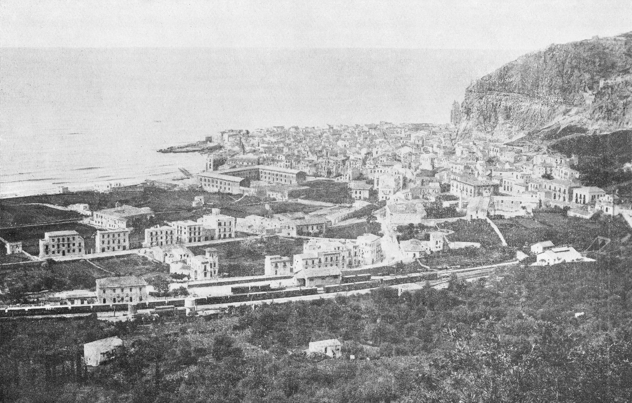 bla